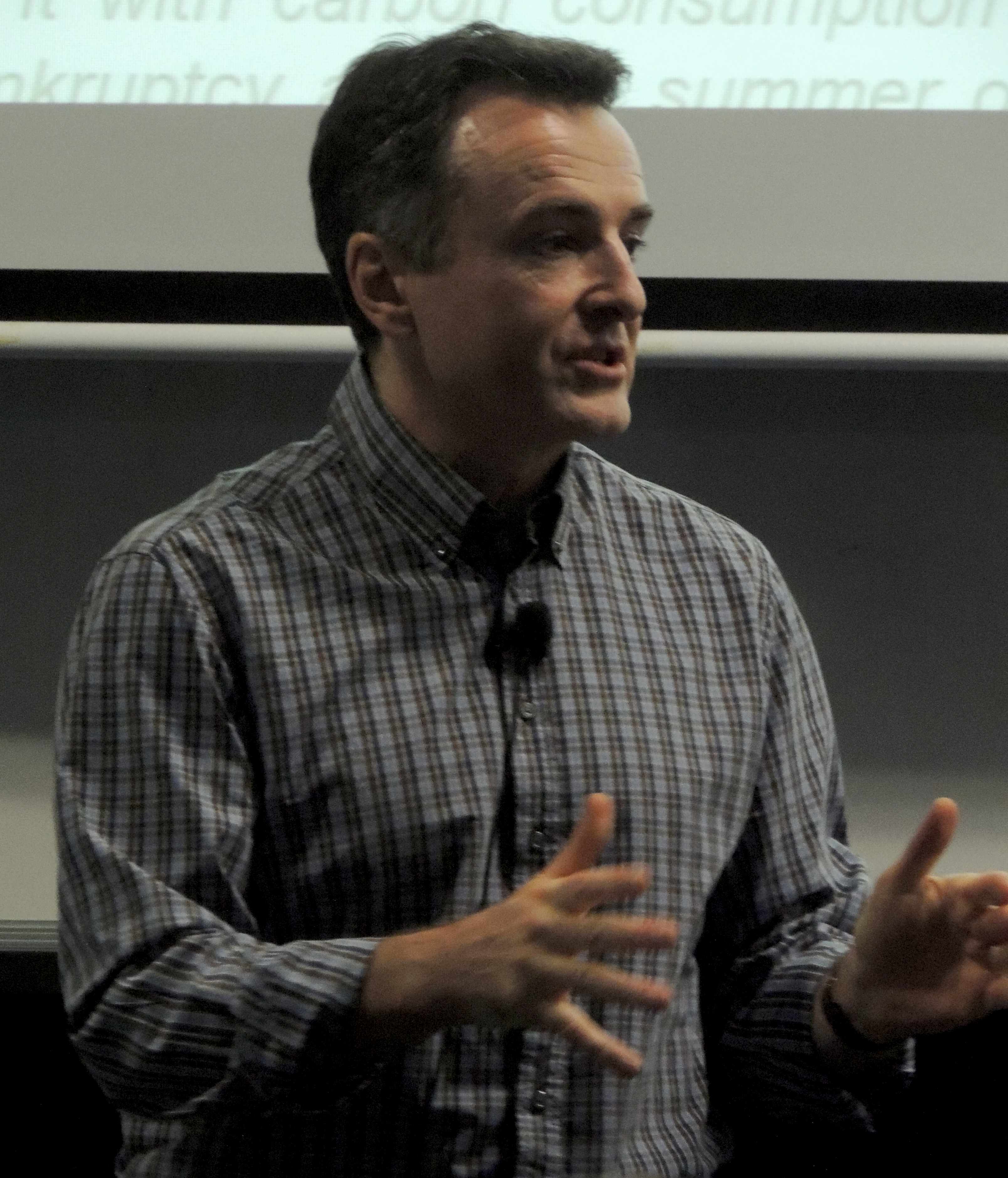 John O'Brien speaks at an Oaktree event in Adelaide, South Australia 2015